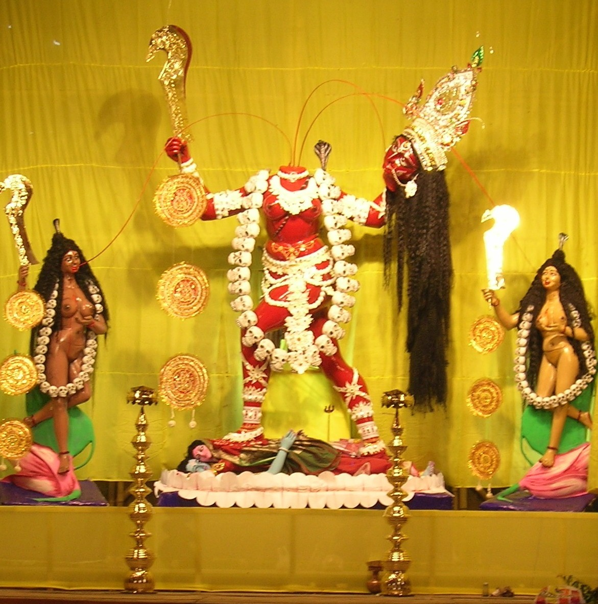 Chhinnamasta, at a Kali Puja Pandal, Chetla, South Kolkata